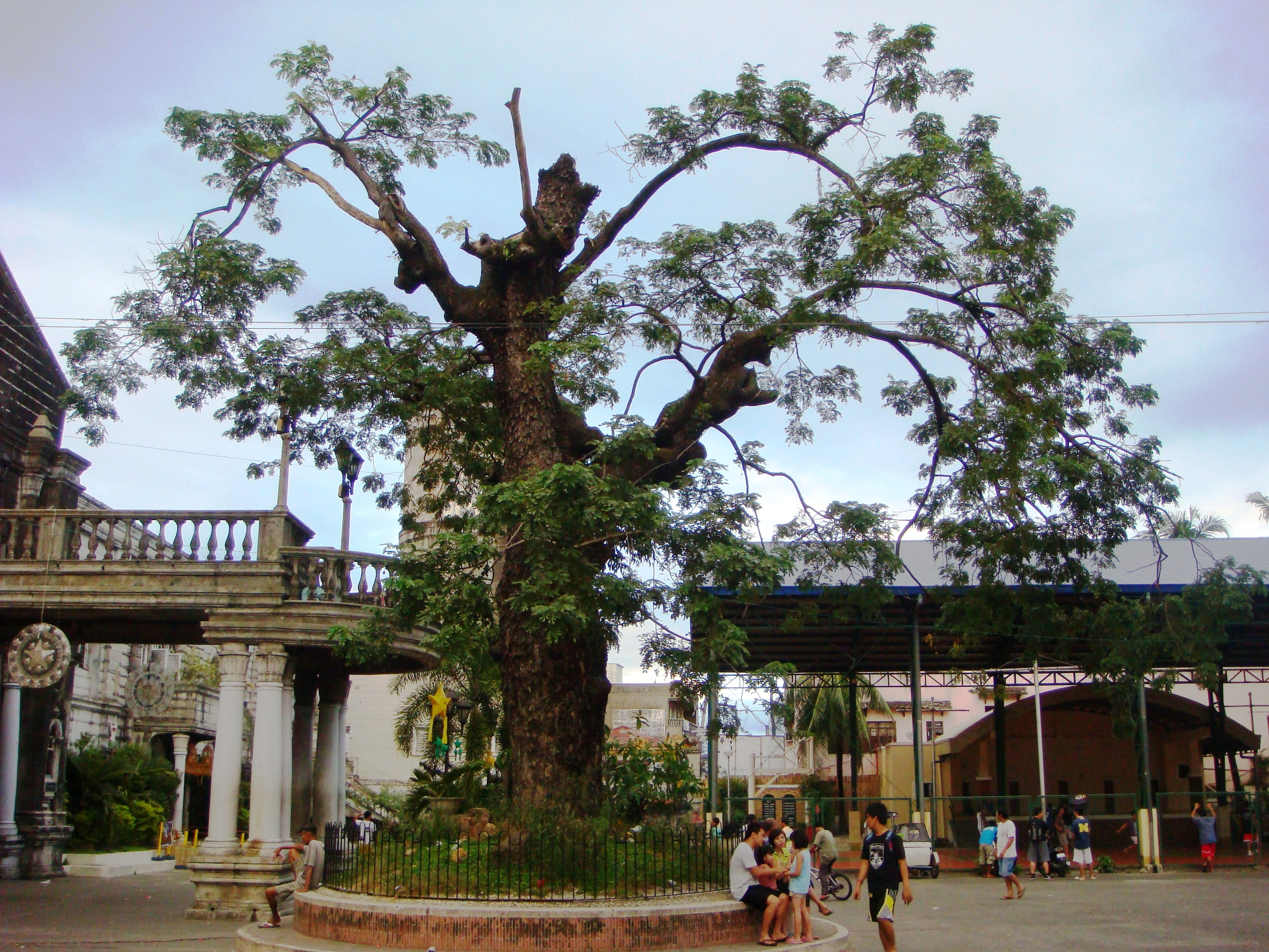 Meycauayan Acacia Tree – The late Pres. Manuel L. Quezon played under this tree in his childhood days[1]